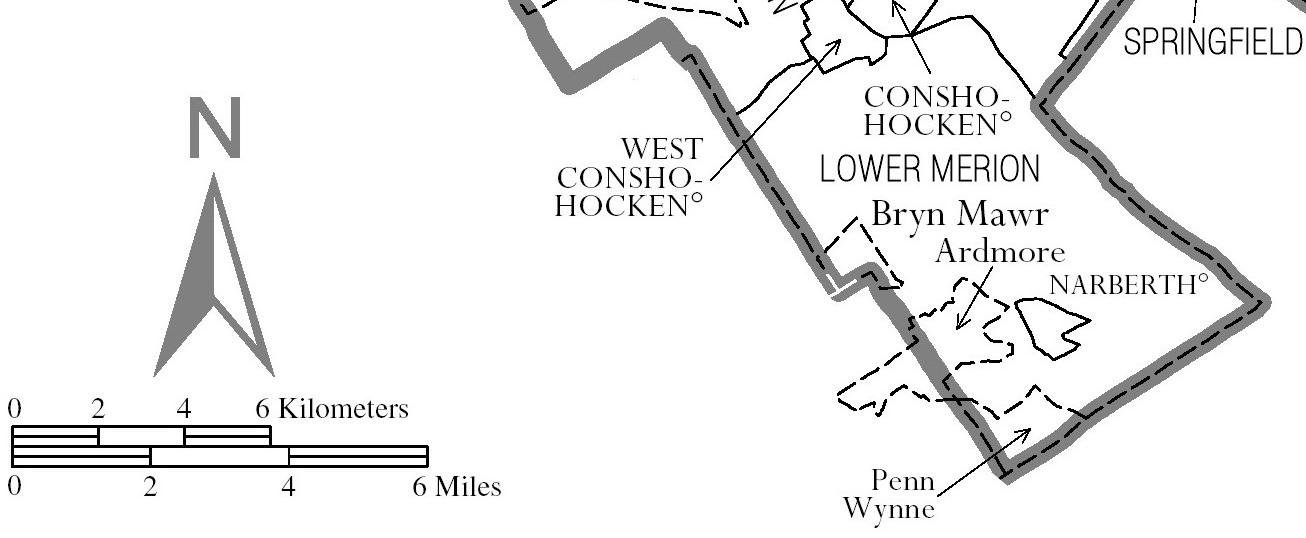 Map of Lower Merion Township, Montgomery County, Pennsylvania; cropped from the image below.